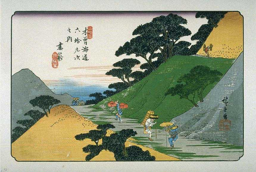 Tsumago on the Kisokaido, ukiyo-e prints by Hiroshige